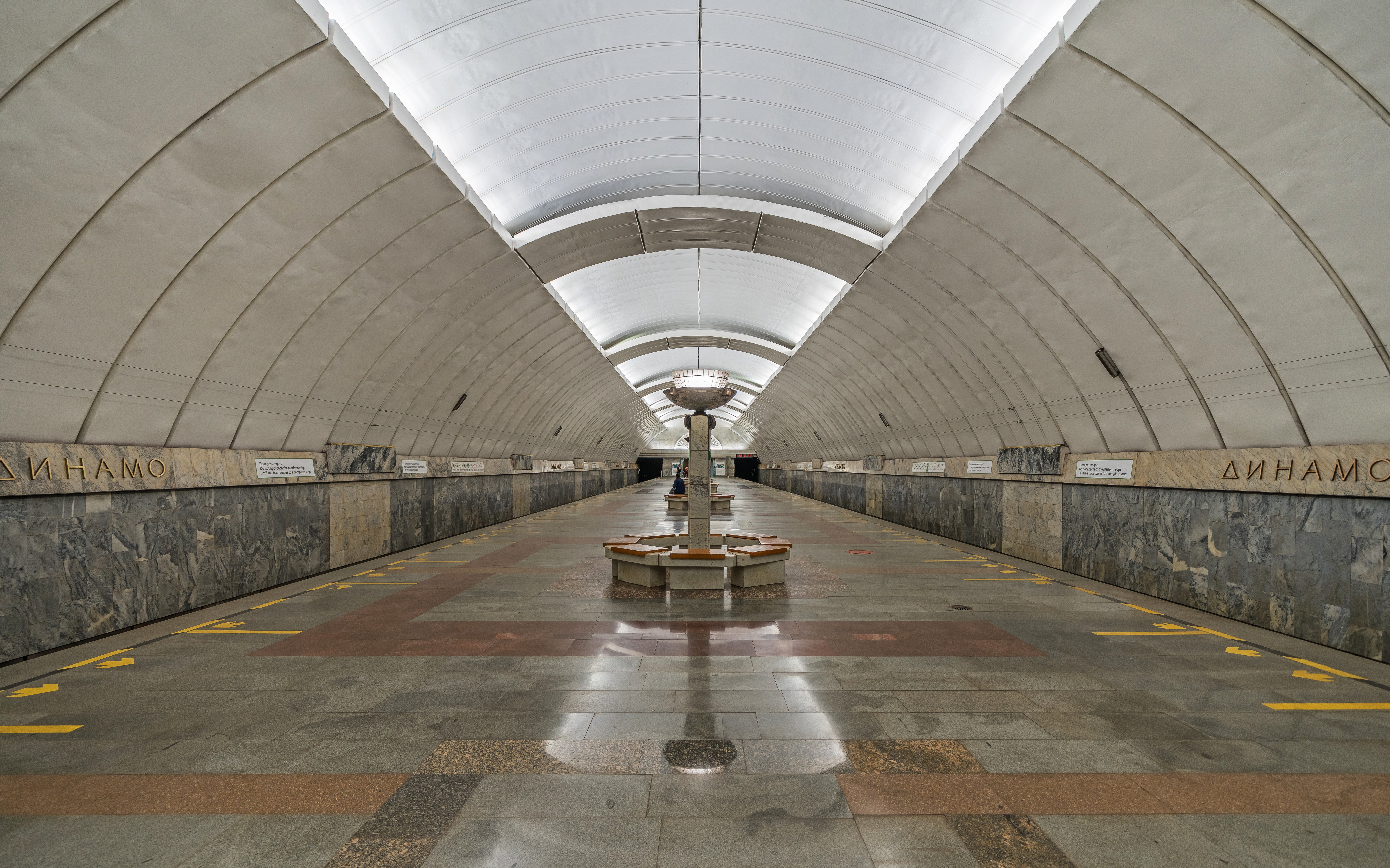 Dinamo metro station in Ekaterinburg, Russia